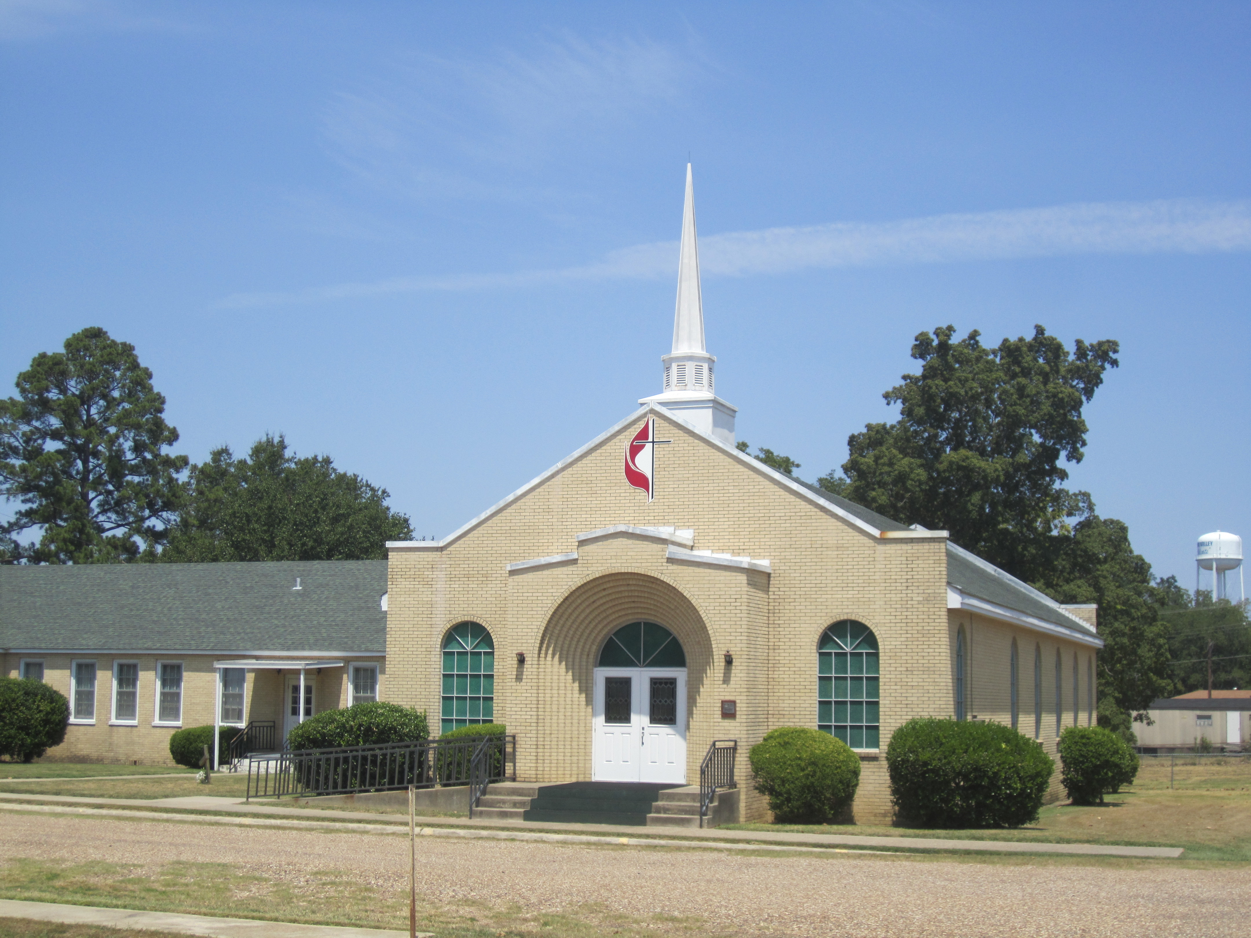 I took revised photo with Canon camera of First United Methodist Church in Cotton Valley, LA.